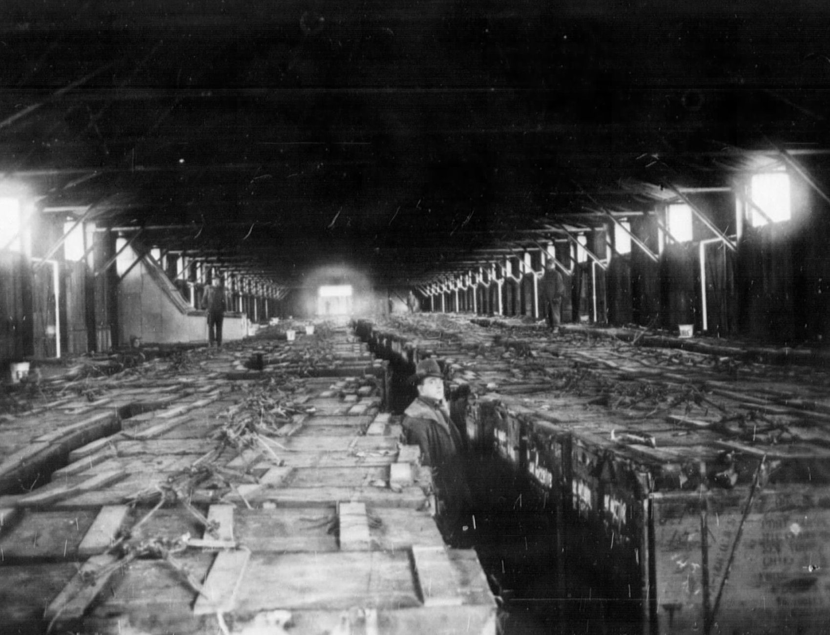 Romorantin Aerodrome - Liberty Engine Storage